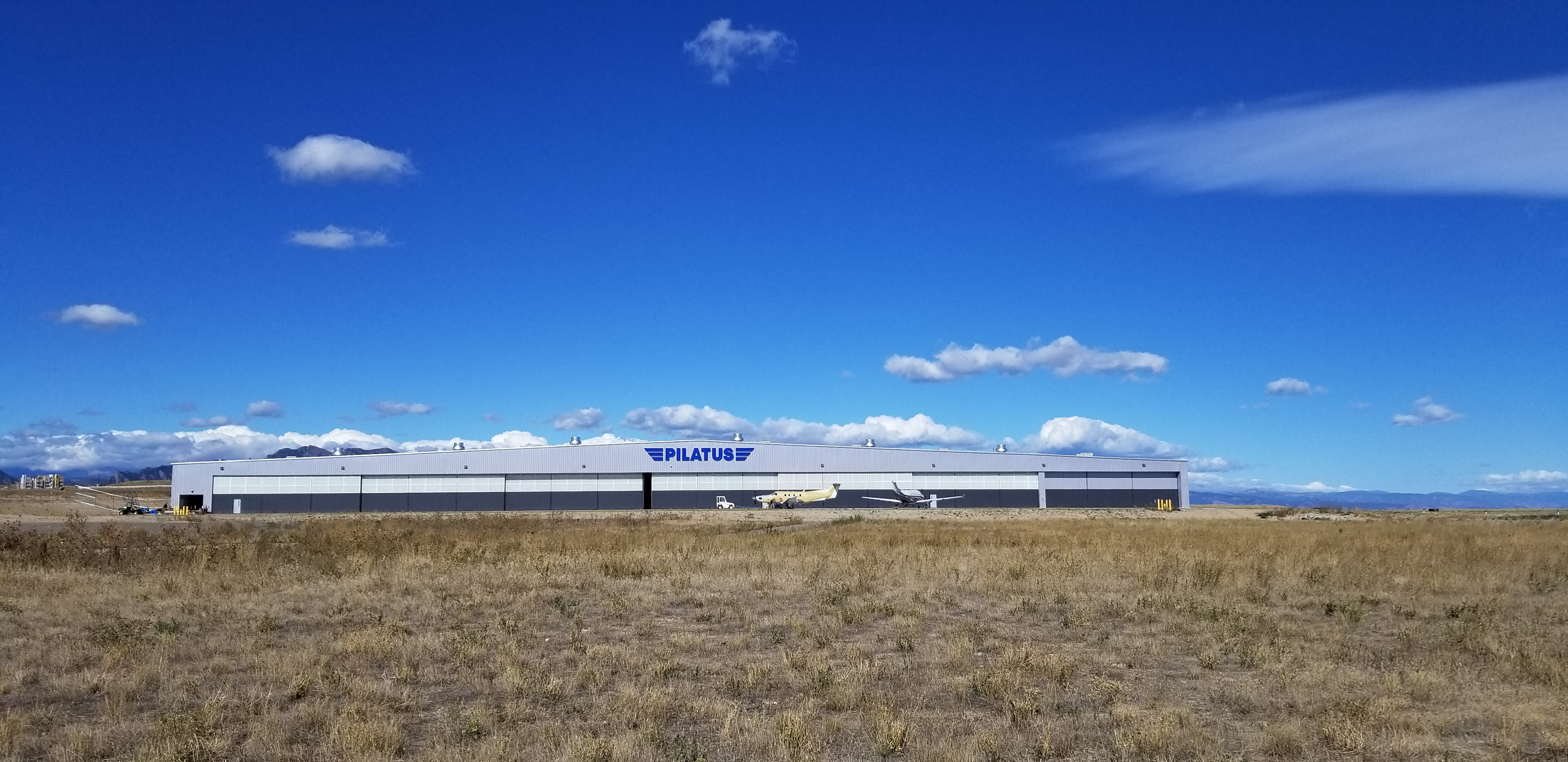 The Pilatus Hangar at Rocky Mountain Metropolitan Airport (BJC) in Broomfield, Colorado.